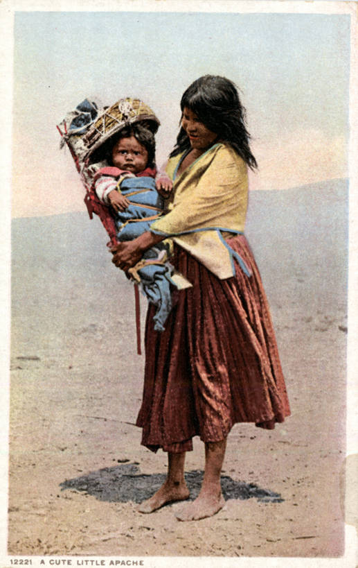 "A Cute Little Apache "